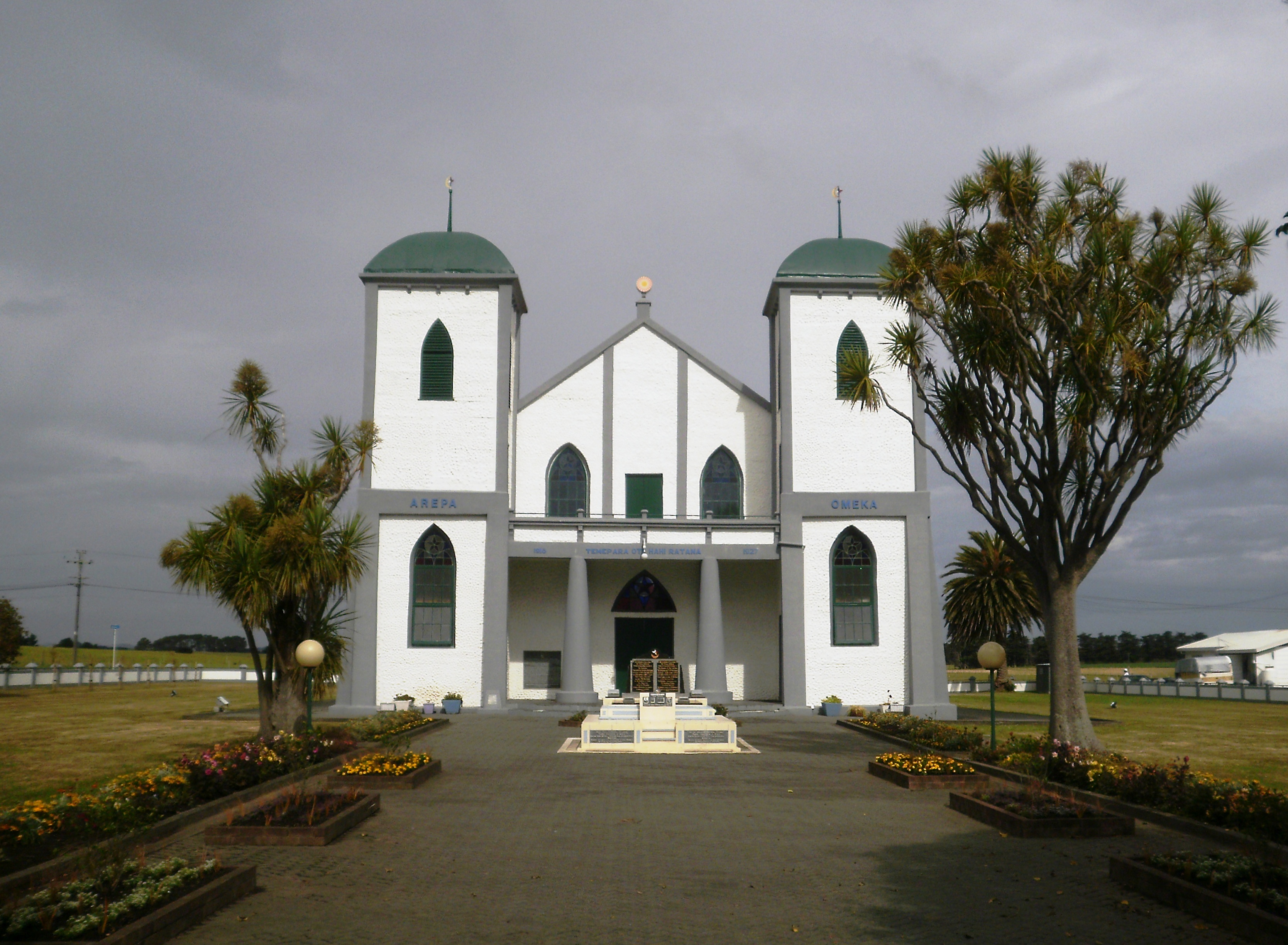 Ratana Pa, Ratana, Wanganui, New Zealand. View of front facade from entrance gates.